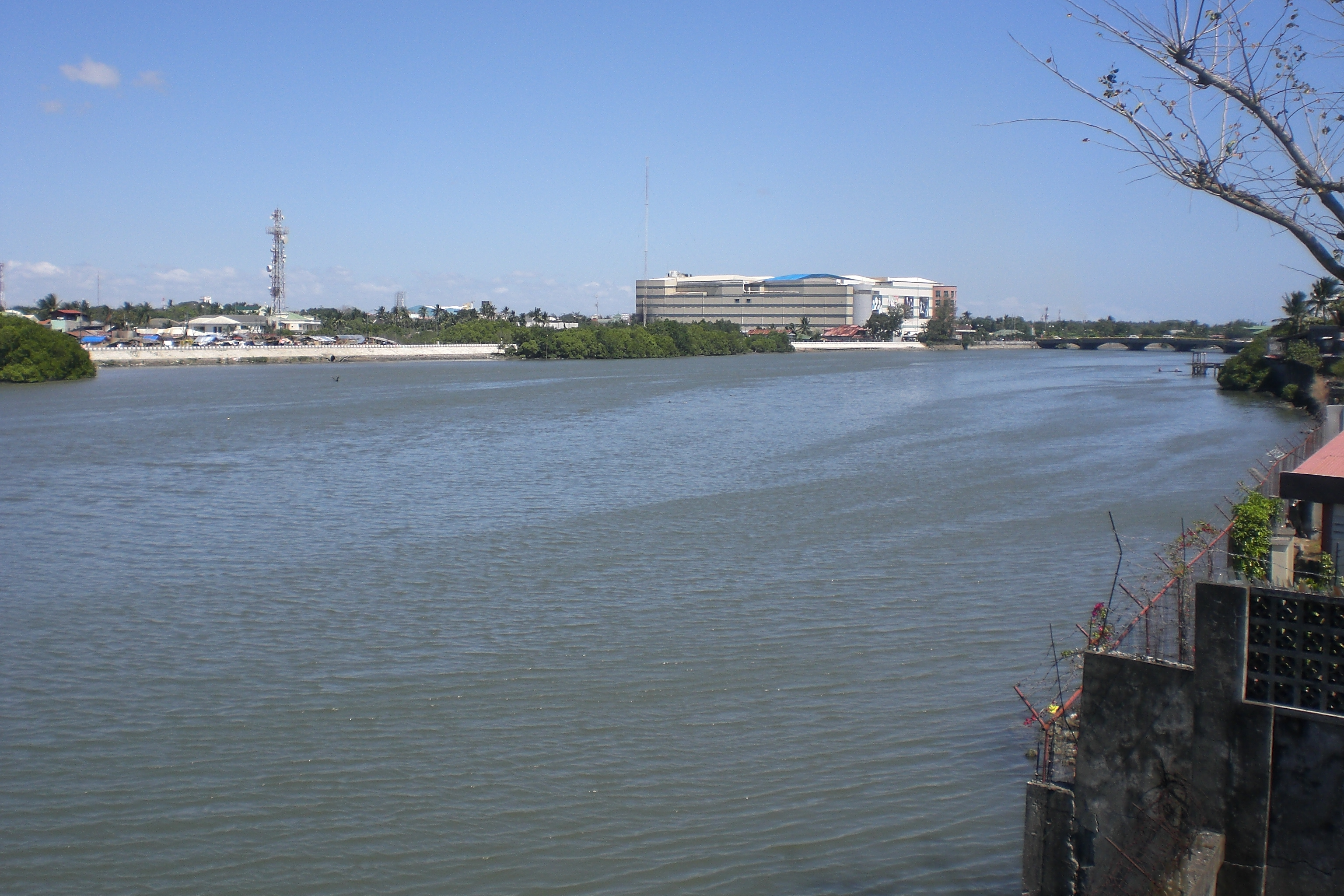 Iloilo River in Iloilo, Philippines